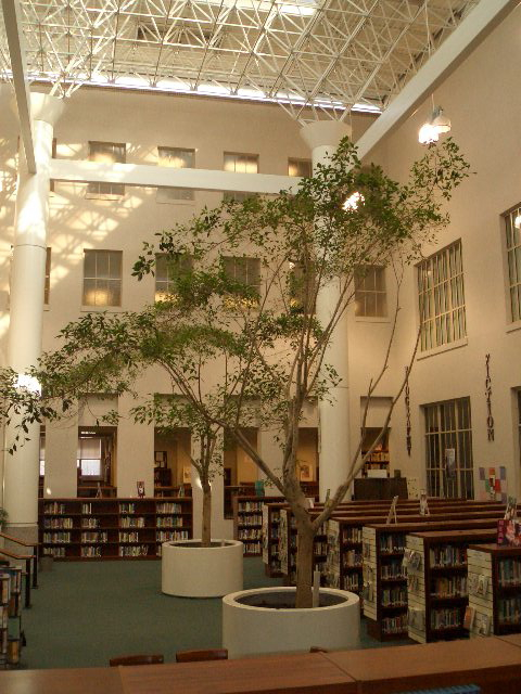 The Tucson High Library located in the Main building, modeled after the Minoan Megaron.